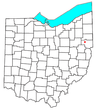 Locator map of the unincorporated community of Winona in Columbiana County, Ohio, United States.